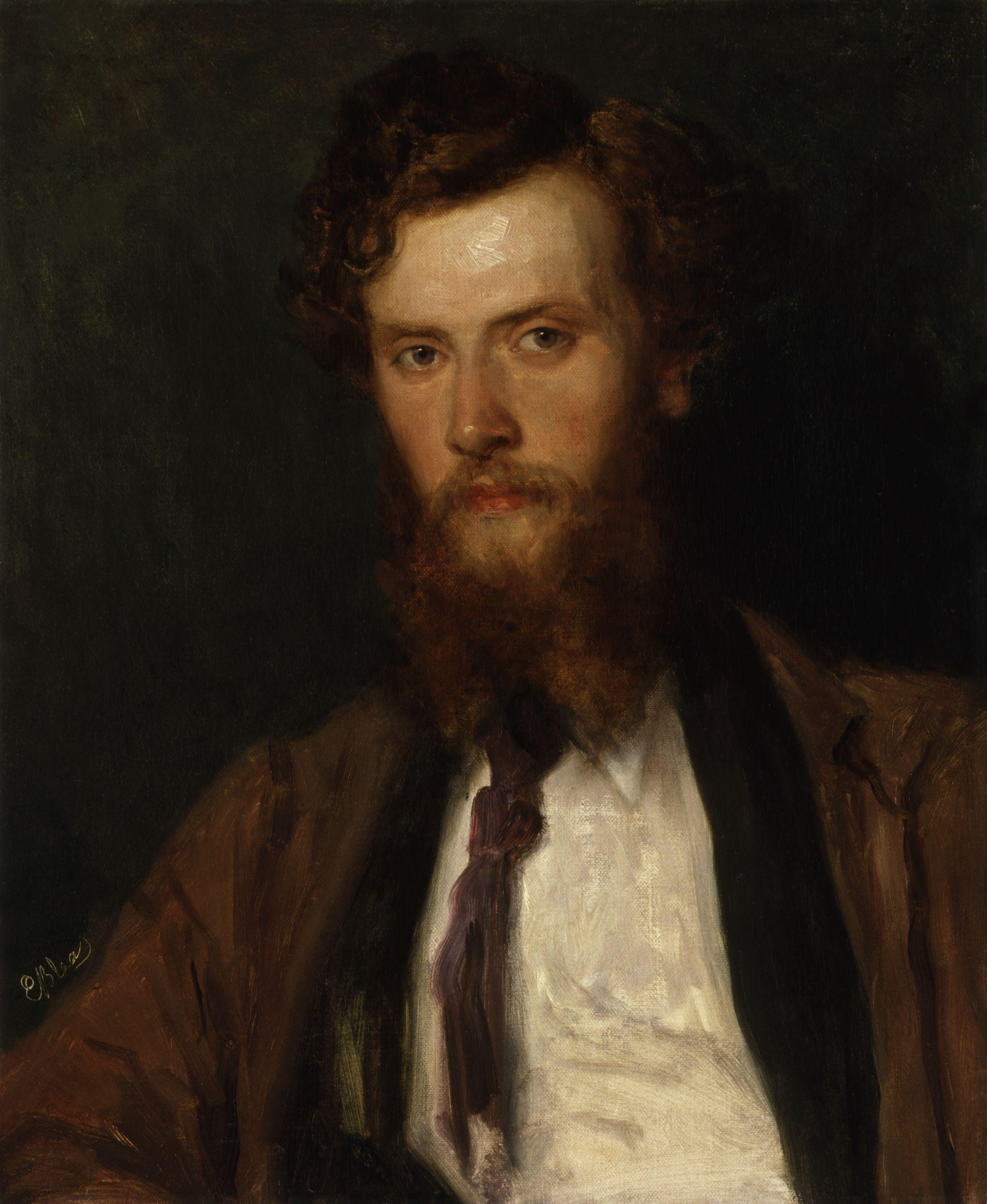 All images in this batch have been confirmed as author died before 1939 according to the official death date listed by the NPG.